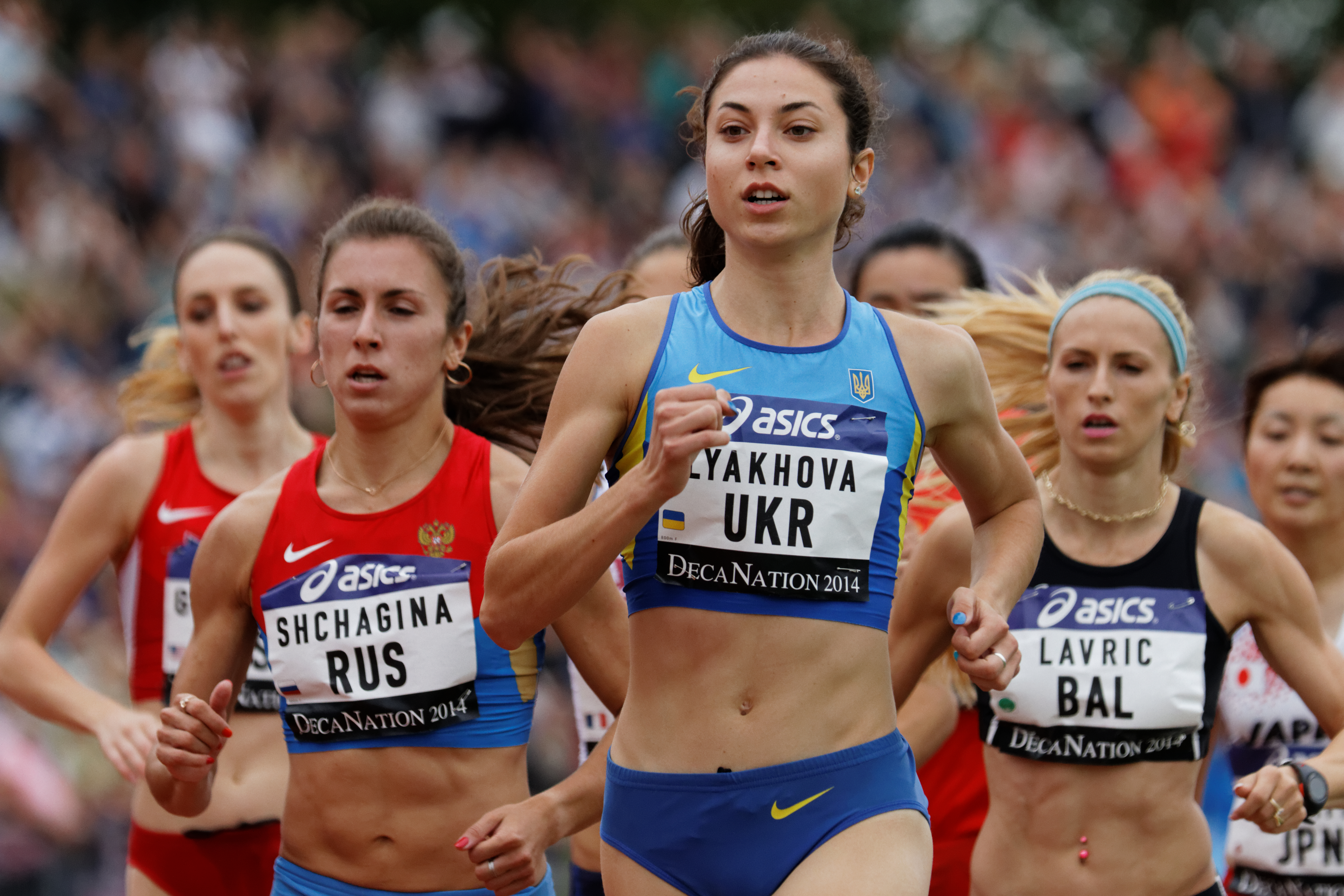 Olha Lyakhova from Ukraine and Anna Shchagina from Russia competing at DécaNation 2014 in the 800m.